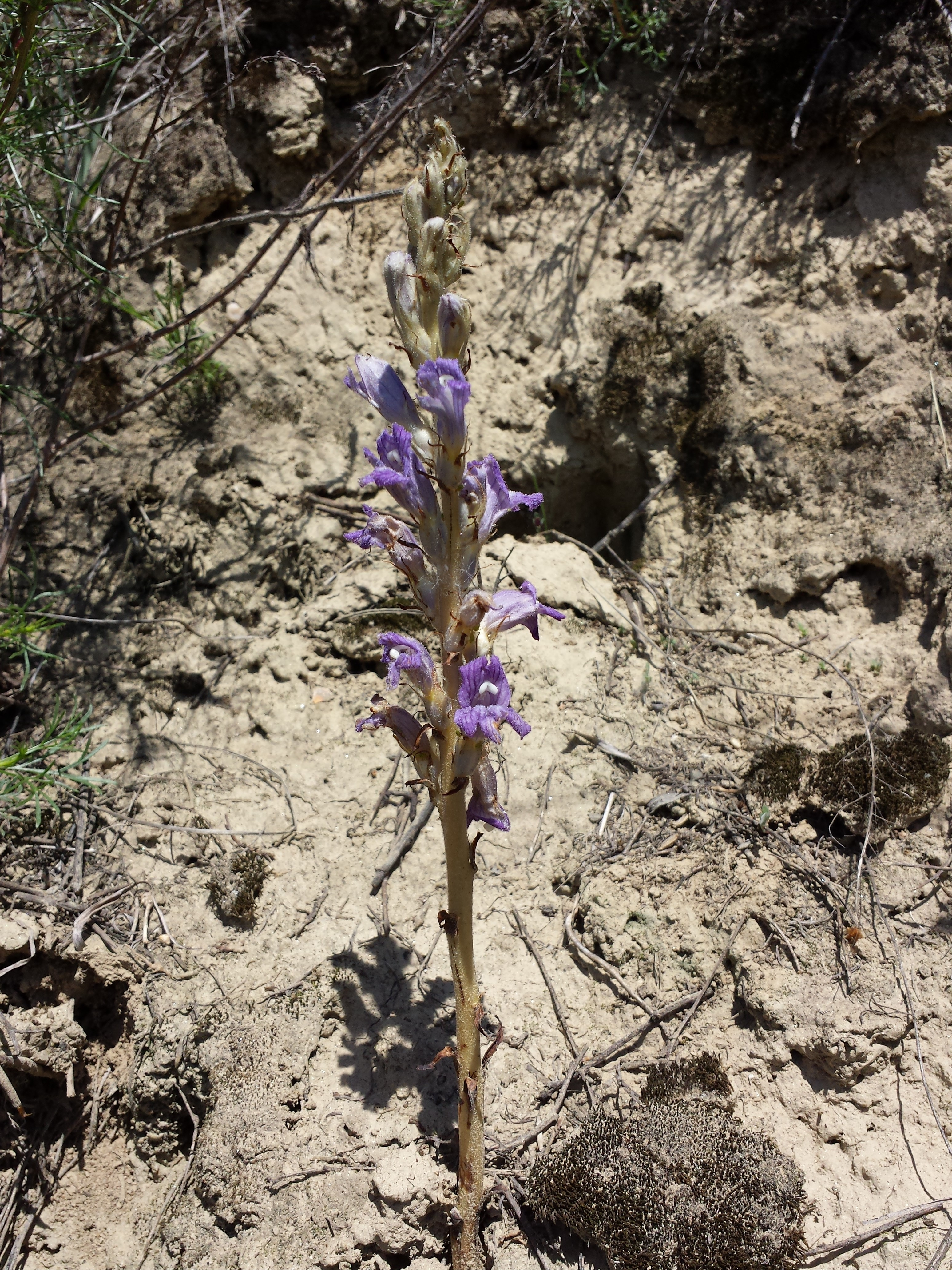 Habitus Taxon: Phelipanche arenaria (sensu Fischer et al. EfÖLS 2008 ISBN 978-3-85474-187-9; det. M. A. Fischer 2014-06-07) Location: "Auf der Haid" nearby Gedersdorf, district Krems-Land, Lower Austria - ca. 270 m a.s.l. Habitat: Loess wall